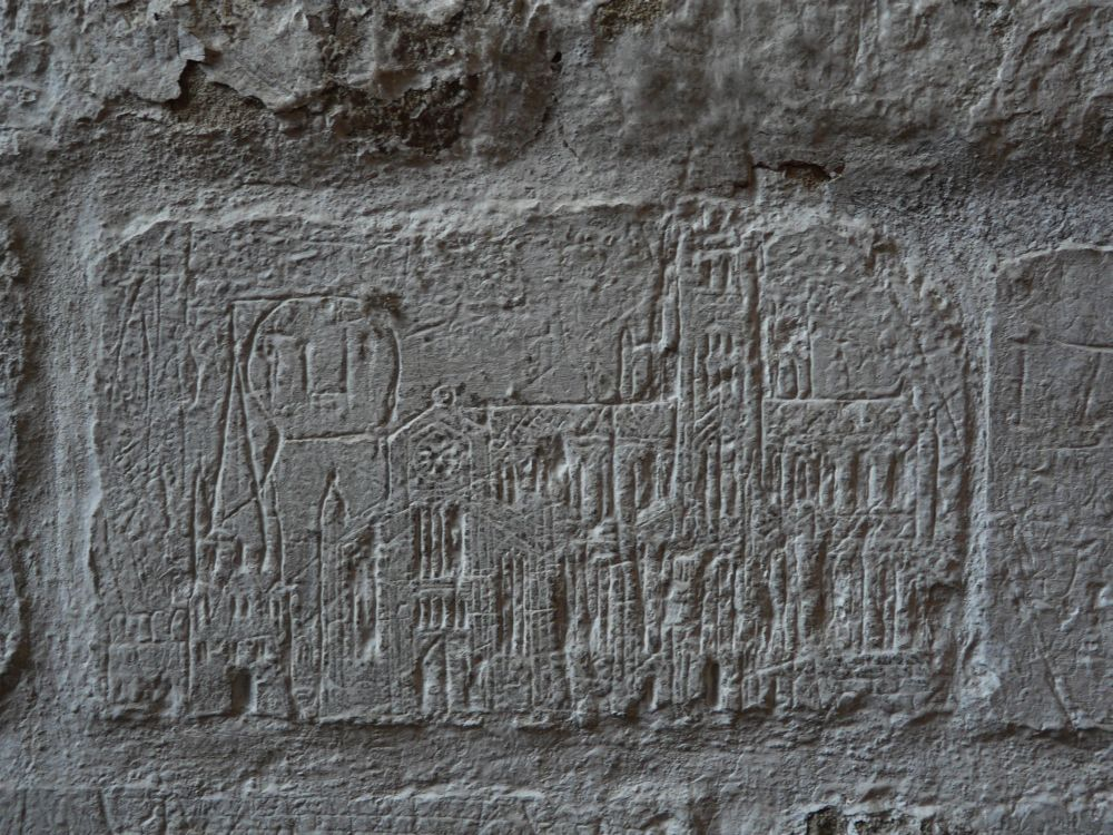 Medieval graffiti of Old St Paul's Cathedral in the Church of St Mary the Virgin, Ashwell